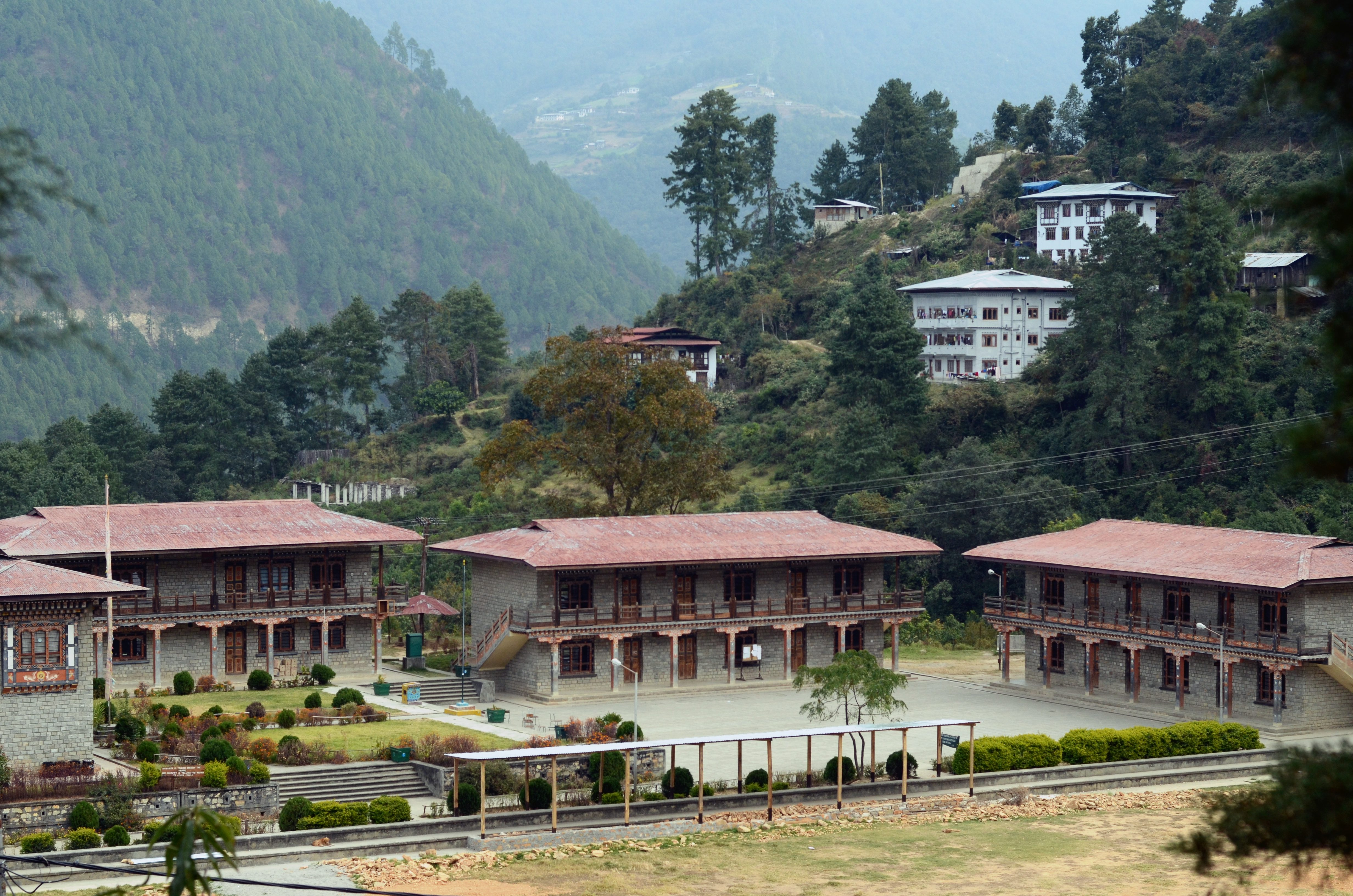 Mongar Lower Secondary School (Mongar LSS), Mongar, Bhutan